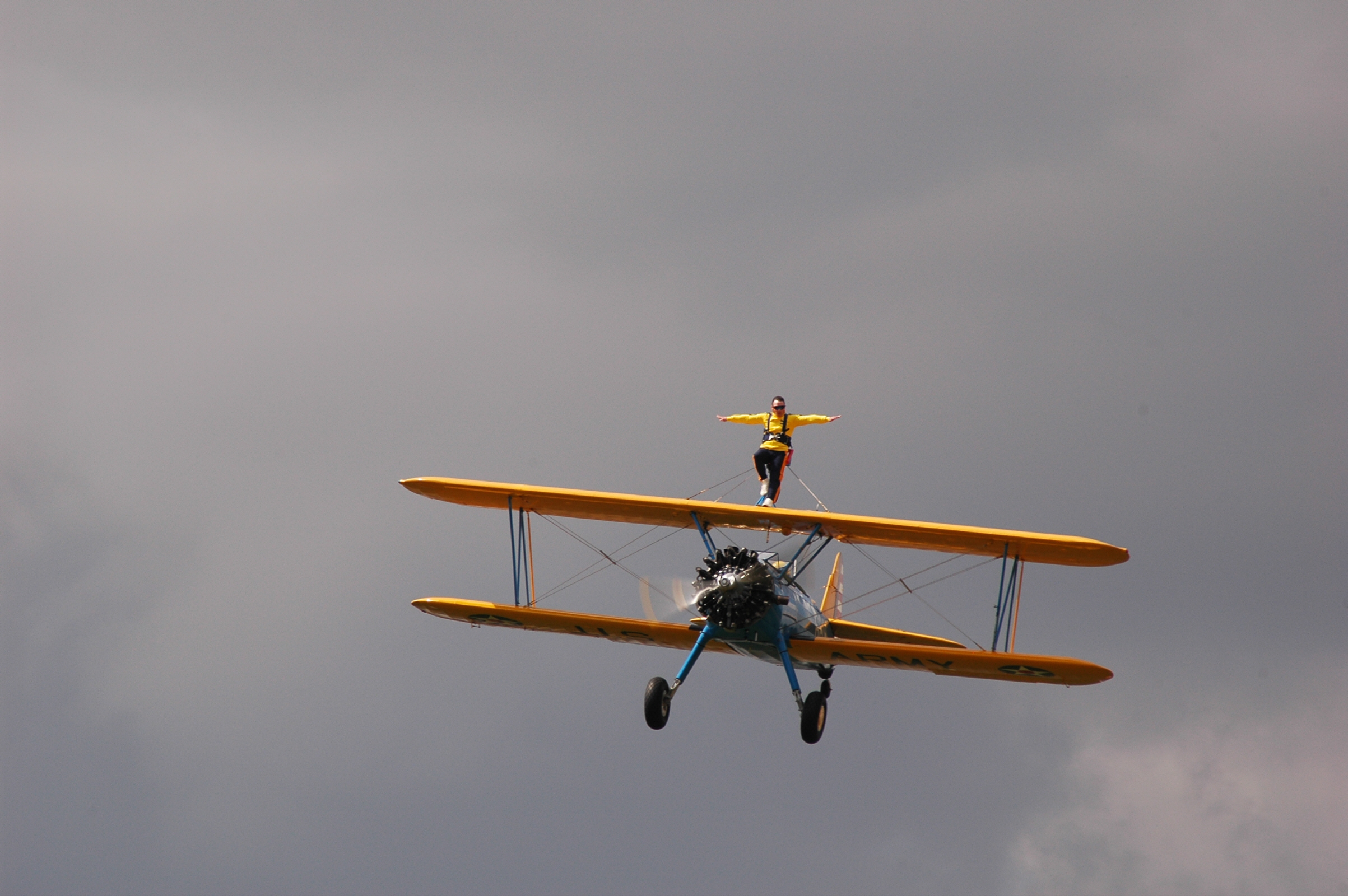 Boeing-Stearman PT-17 aerobatic display of wing walker,JOHN THOMAS, in the uk